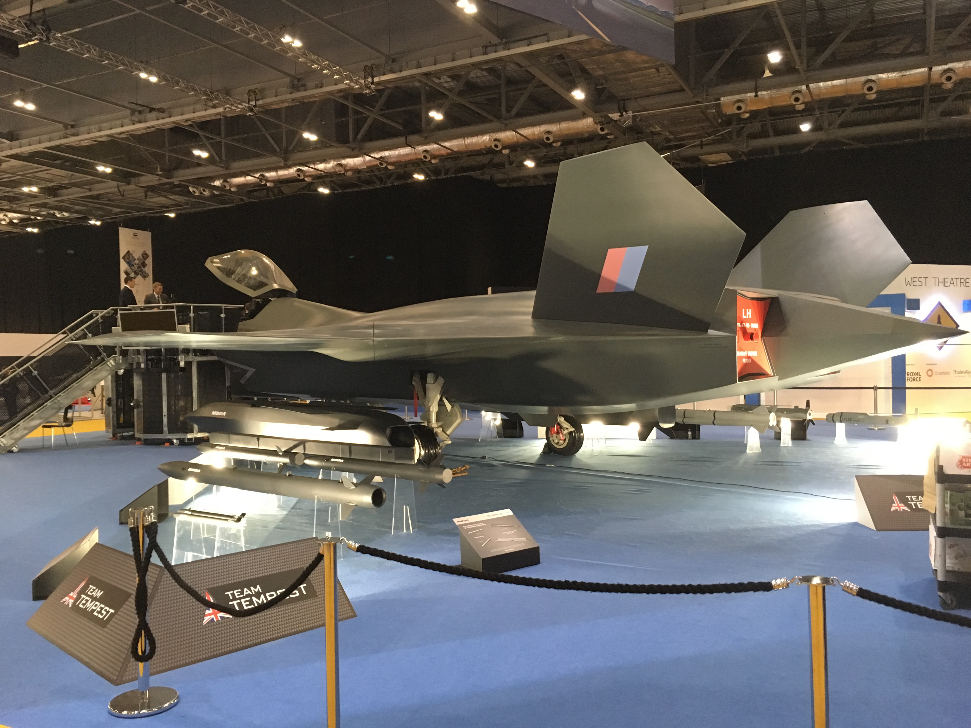 BAE Systems Tempest on DSEI -2019, ExCel , London